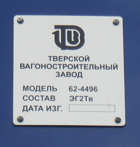 EG2Tv-001 EMU plant table